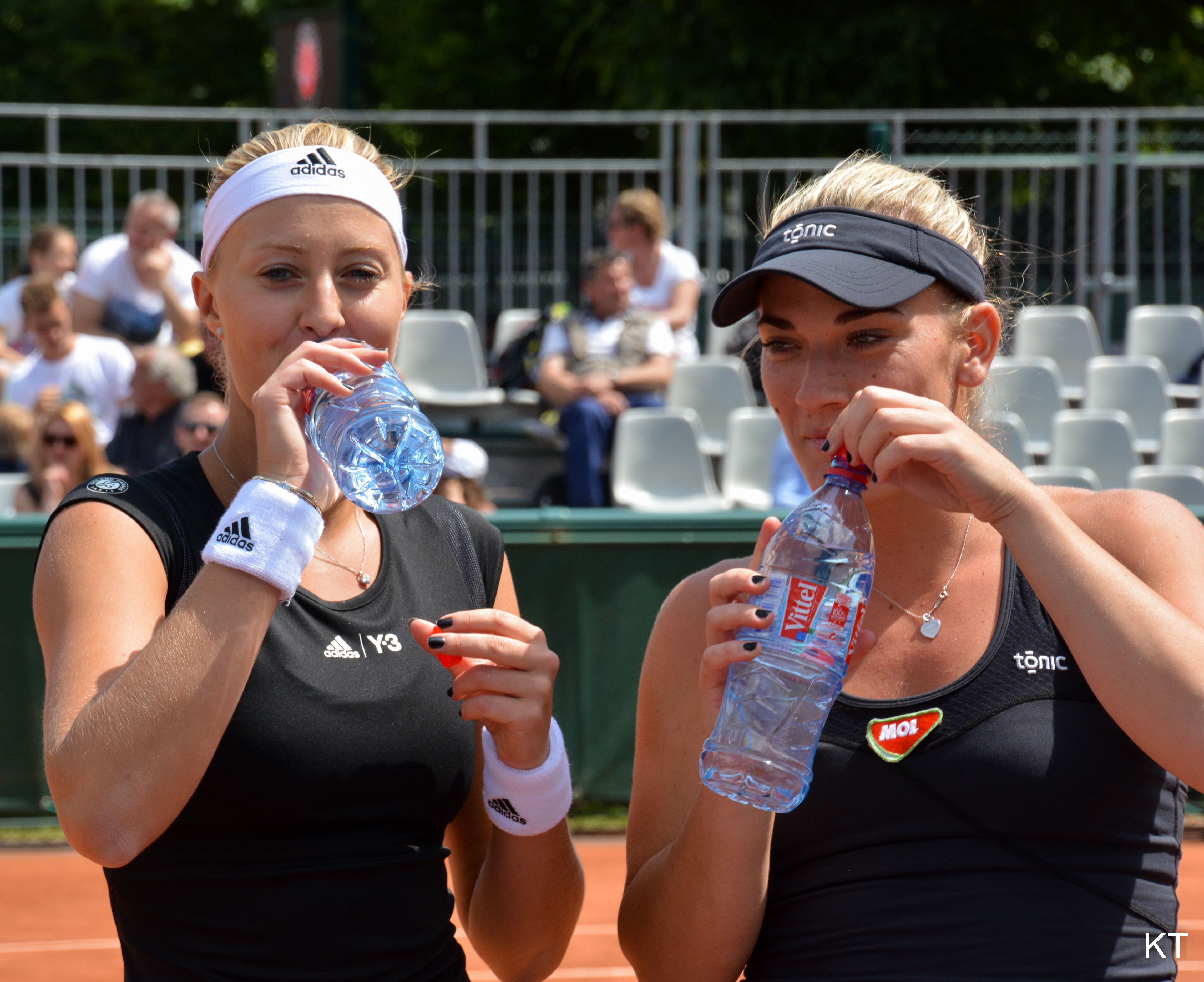 Kristina Mladenovic (left) and Tímea Babos on day 4 of Roland Garros 2015.